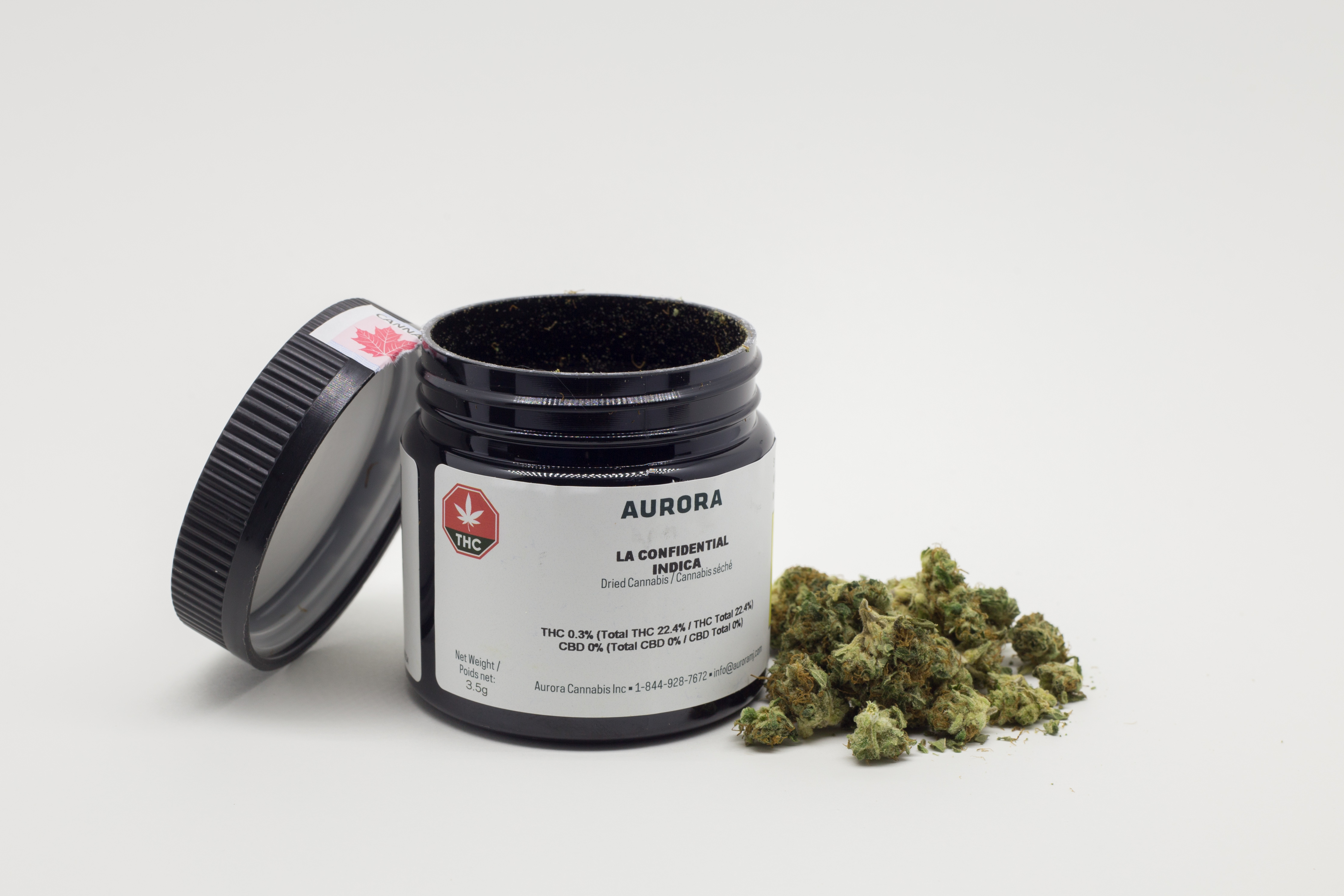 Example of cannabis product sold by the Quebec Cannabis Society (SQDC)